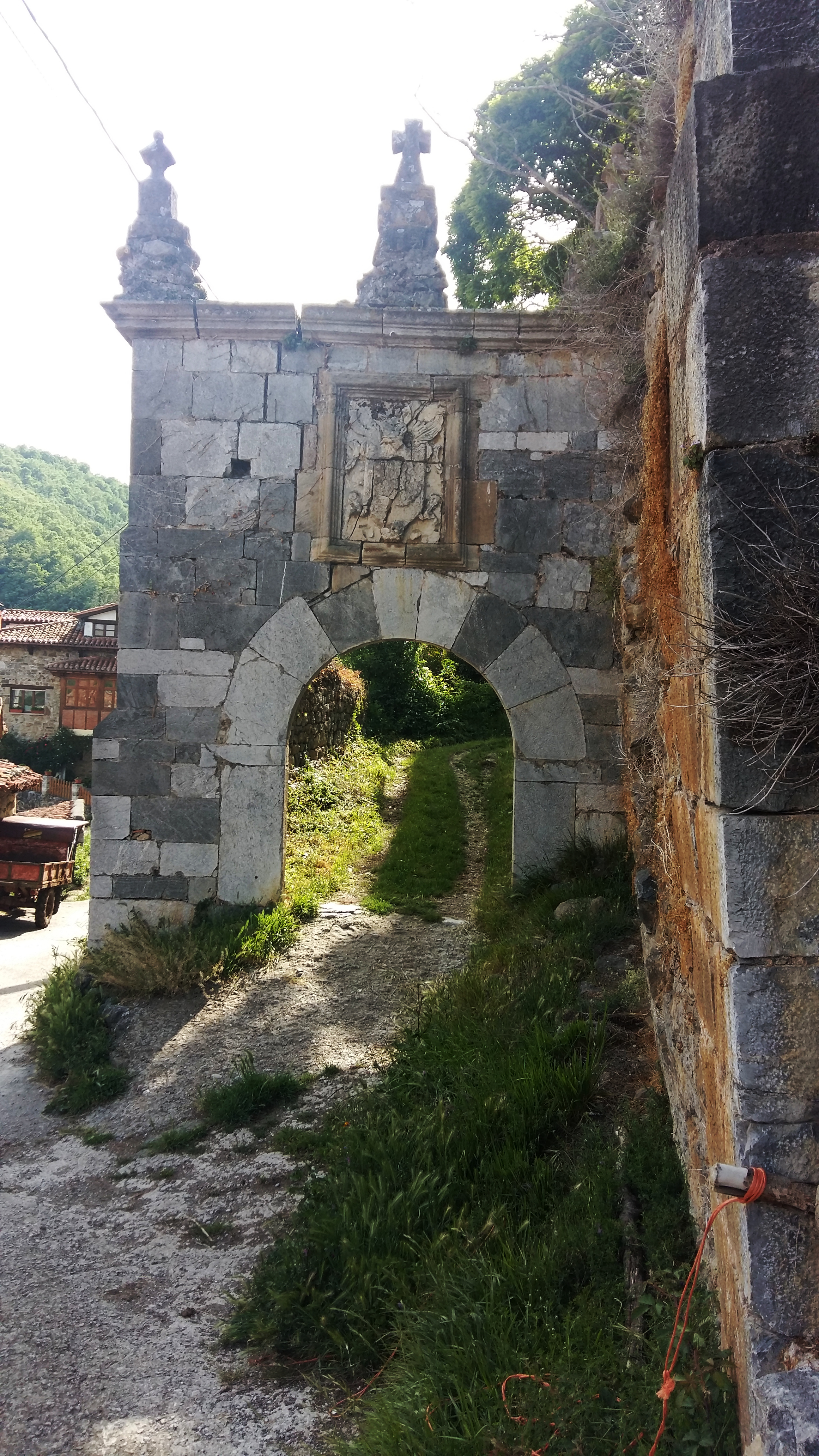 Access portal to the former Cavalry Academy of Colio (Cantabria, Spain), created during the War of Spanish Independence in 1811.